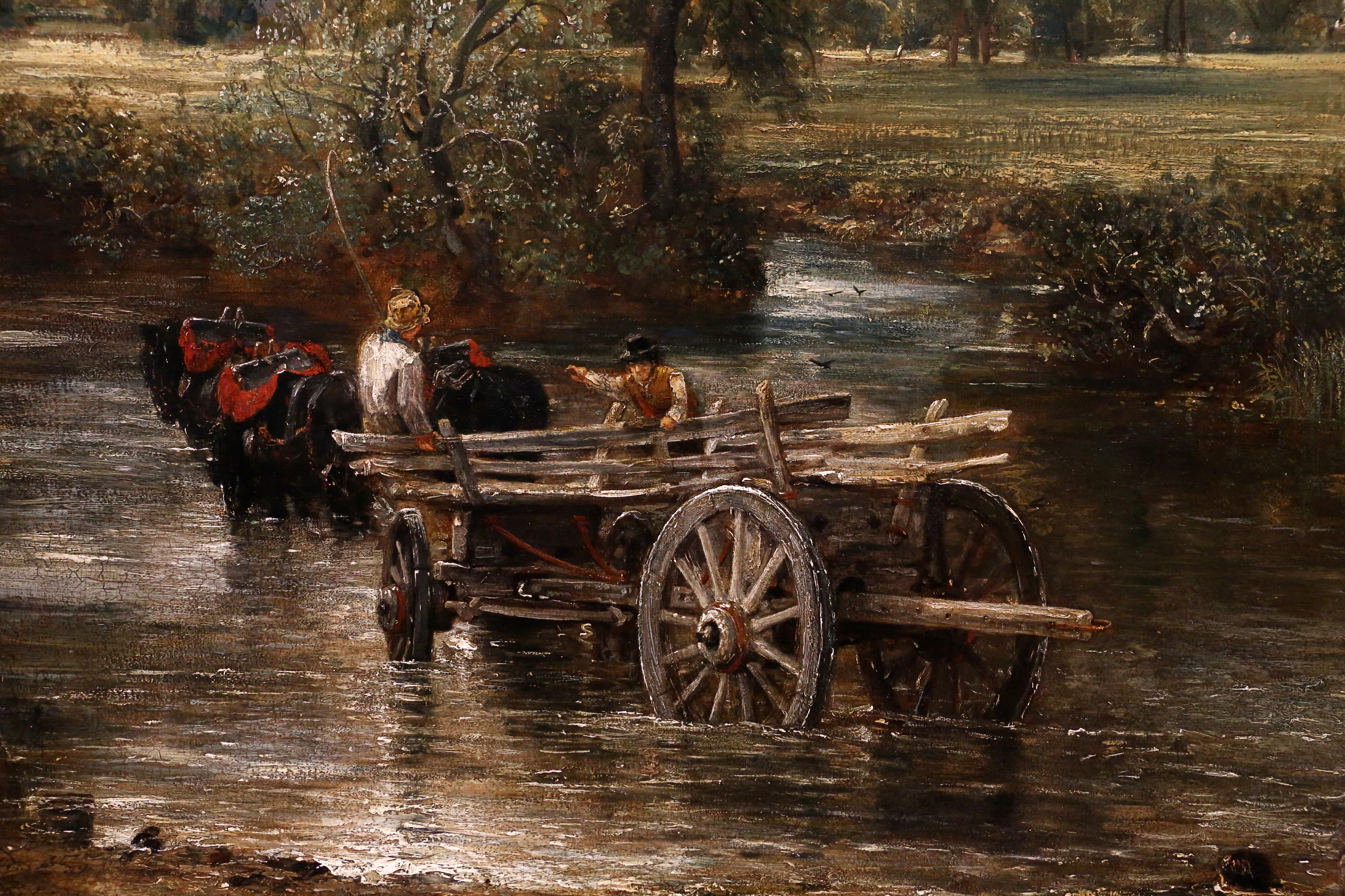 Paintings by John Constable in the National Gallery, London